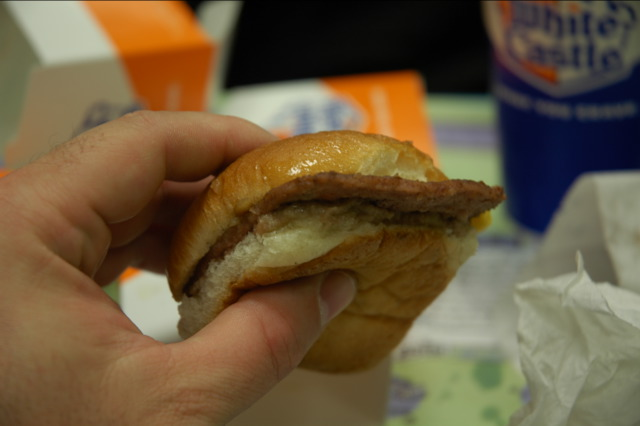 White Castle hamburger